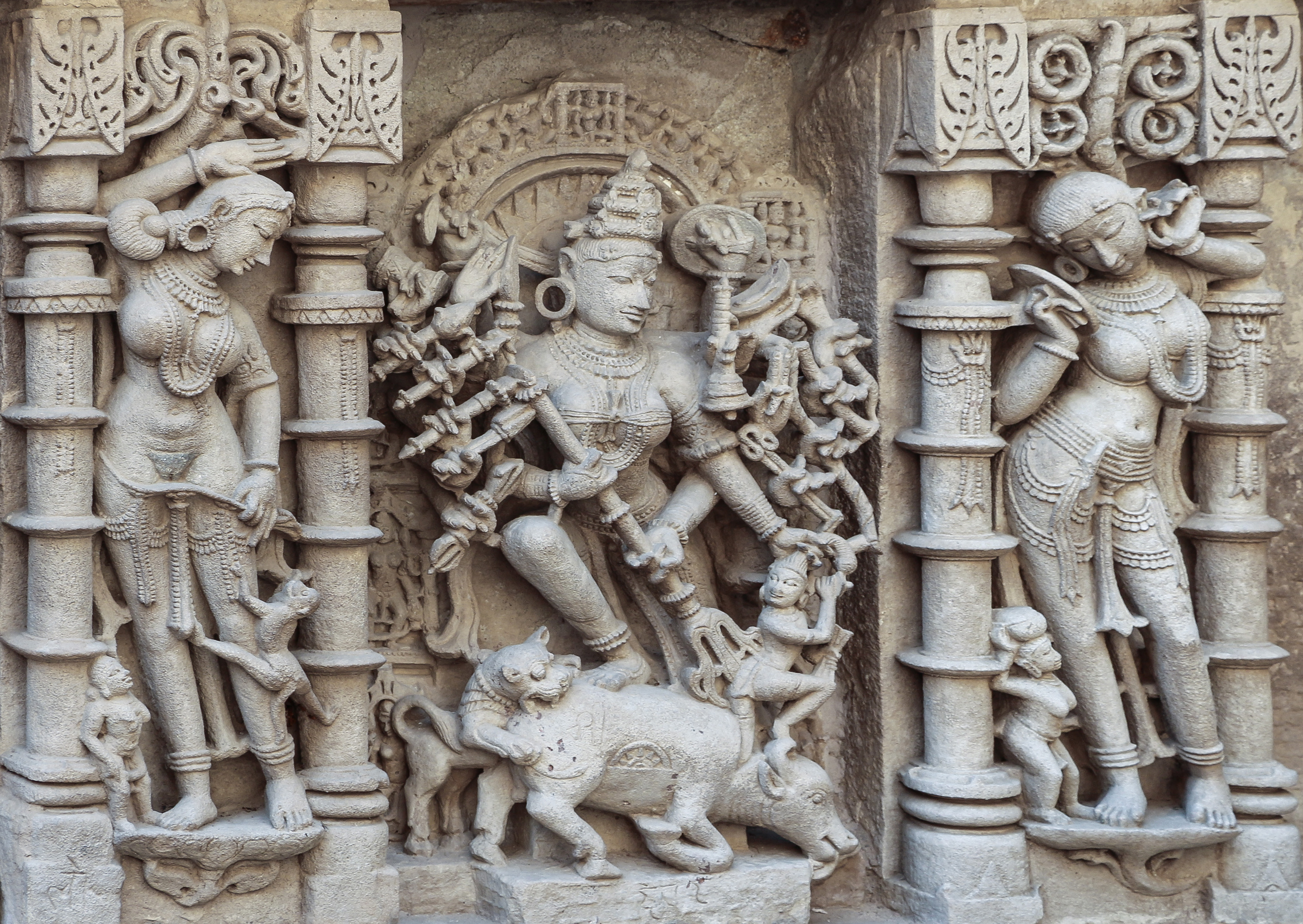 Sculptures in Rani ki vav, Patan, India